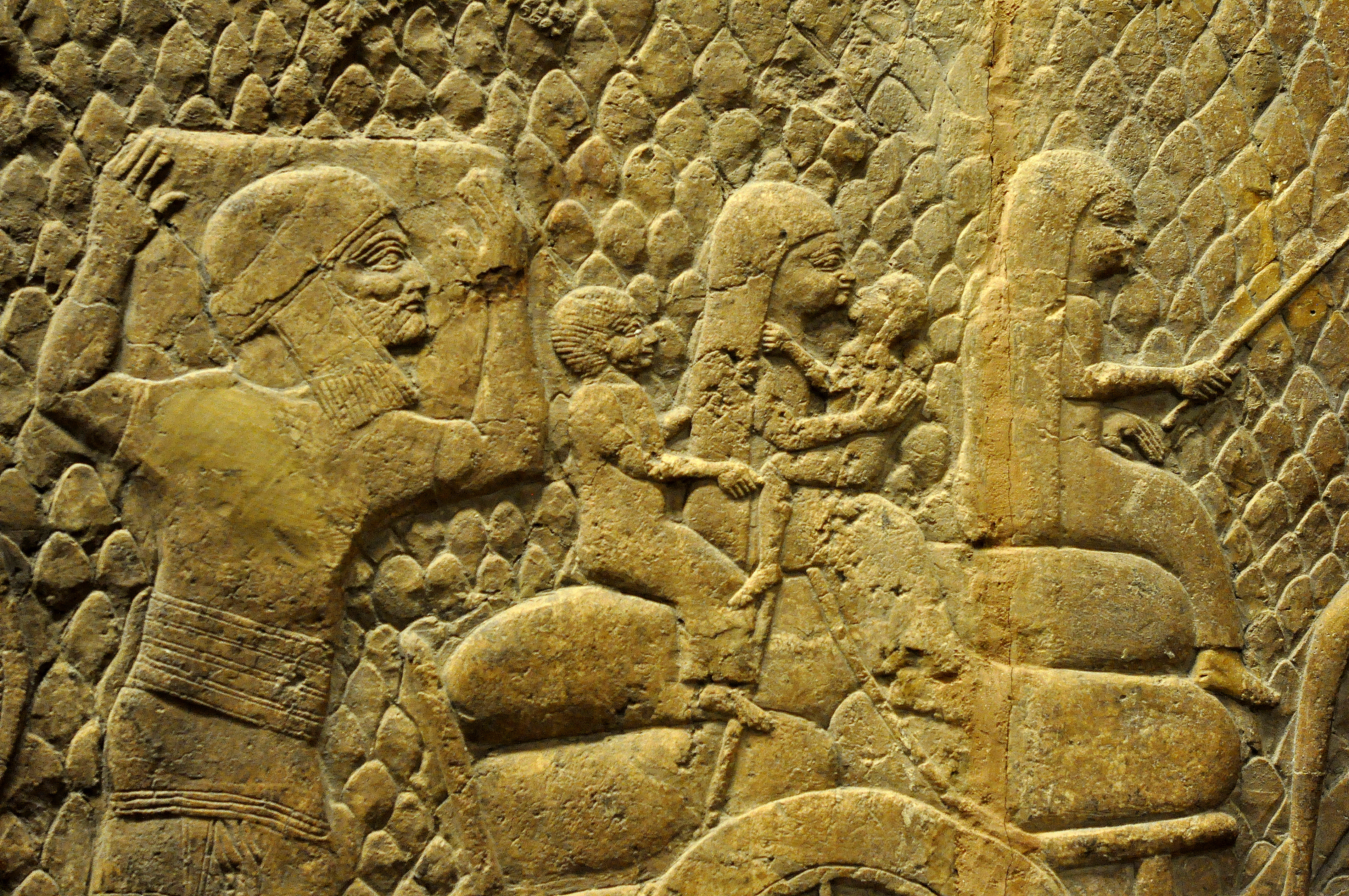 After the sack of Lachish, the Judaean prisoners were deported into exile within other parts of the Assyrian empire. People took their belongings and whatever animals they could. This relief depicts a man, 2 women, and 2 (male and female) children being deported with their household belongings. Wall relief from the South-West Palace at Nineveh (modern-day Ninawa Governorate, Iraq), Mesopotamia. Neo-Assyrian period, 700-692 BCE. The British Museum, London.